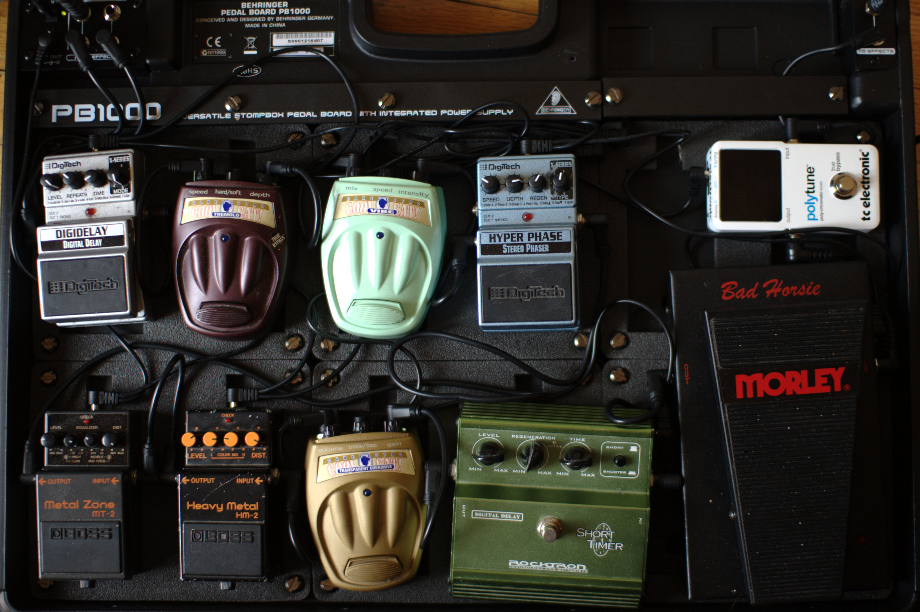 Current configuration. I'm still experimenting and swapping stuff out. I'll cut foam and do better cable management once it's settled a bit more. TC Electronics Polytune ⇒ Morley Bad Horsie Wah ⇒ Rocktron Short Timer Delay (set with just a tiny delay to widen the sound a little) ⇒ Danelectro CTO-1 Transparent Overdrive ⇒ Boss HM-2 (my roommate stumbled across an amazing distortion tone using an odd combo of the CTO-1 and HM-2, that's why it's on there) ⇒ Boss MT-2 (for serious scooped metal) ⇒ Digitech Hyper Phase ⇒ Danelectro CV-1 Vibe ⇒ Danelectro CT Tremelo ⇒ Digitech Hyper Delay ⇒ Amp. All sitting on a Behringer PB1000 pedalboard. I still have a lot more pedals than fit on the board so I'm not sure what to do. The current setup is oriented towards running into my roommate's Blackheart Little Giant amp (which sounds great but is pretty minimalist) and getting fun noises, rather than being a tight metal rig.